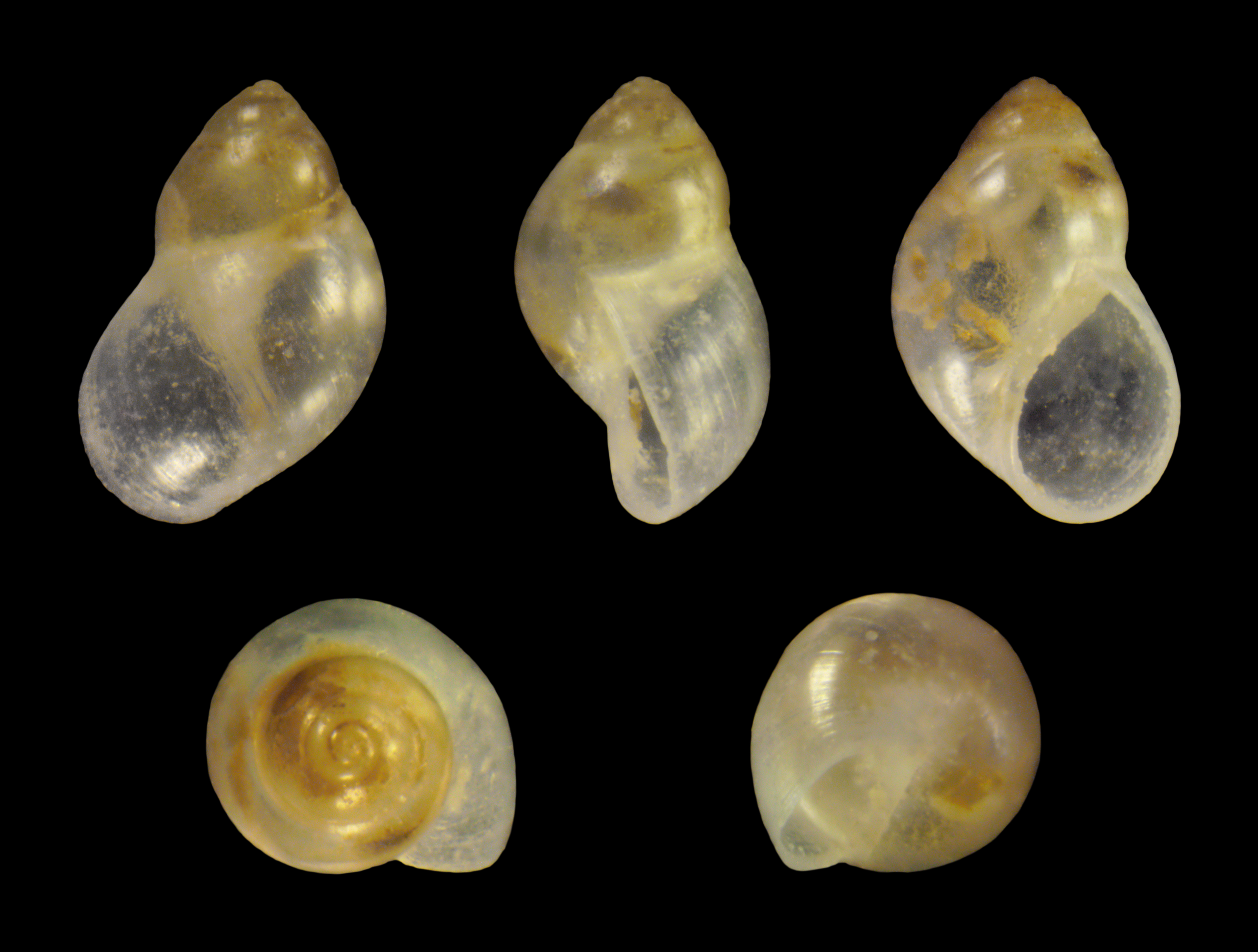 Plagyostila spec. (Dohrn & Heynemann, 1862), Length 0.17 cm; Originating from Cebu, Philippines; Shell of own collection, therefore not geocoded.